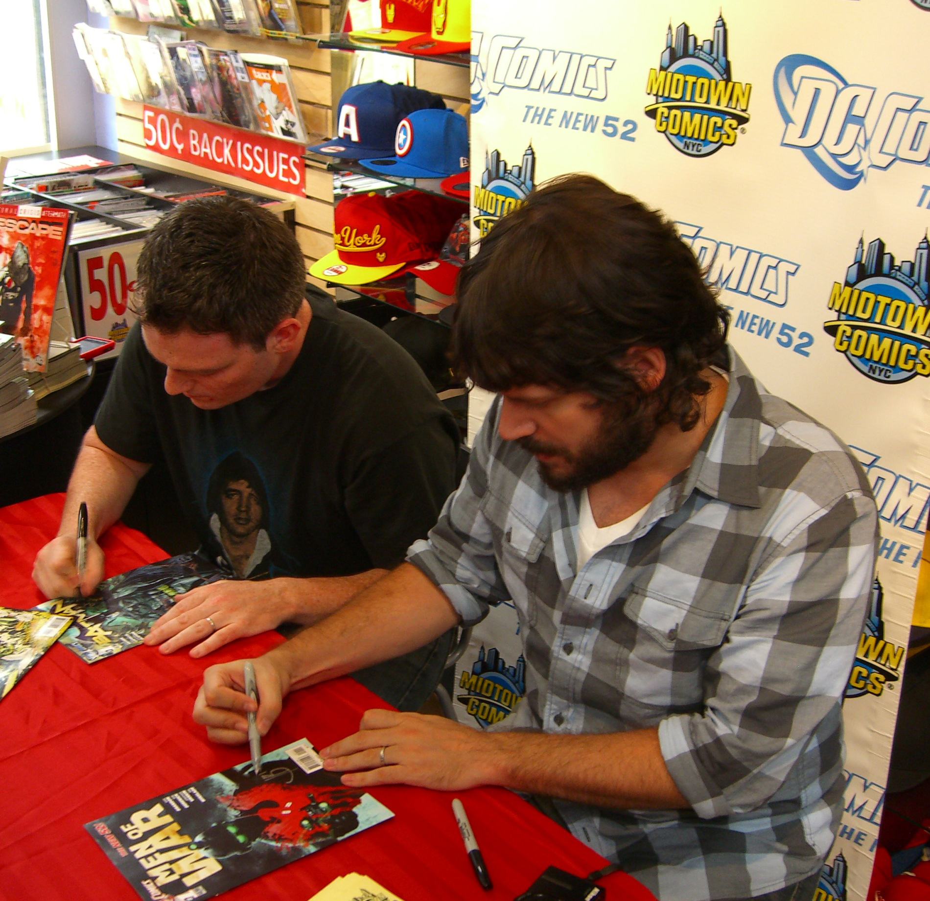 Comic book creators Scott Snyder and Ivan Brandon at a September 21, 2011 book signing for Batman (volume 2) #1 and Men of War #1 at Midtown Comics Downtown in Manhattan, as part of DC Comics' New 52 relaunch. Photographed by Luigi Novi. This photo is not in the public domain. It may, however, be used, modified and published for any purpose, free of charge, only if the photographer is properly credited, either by linking the photograph to this page, or with an easily visible credit to the photographer placed near the photo in each instance in which it is used. (See licensing information below.) Publication of this photo without this proper attribution constitutes copyright infringement. If you have any questions, you can contact me on my Wikipedia Talk Page.